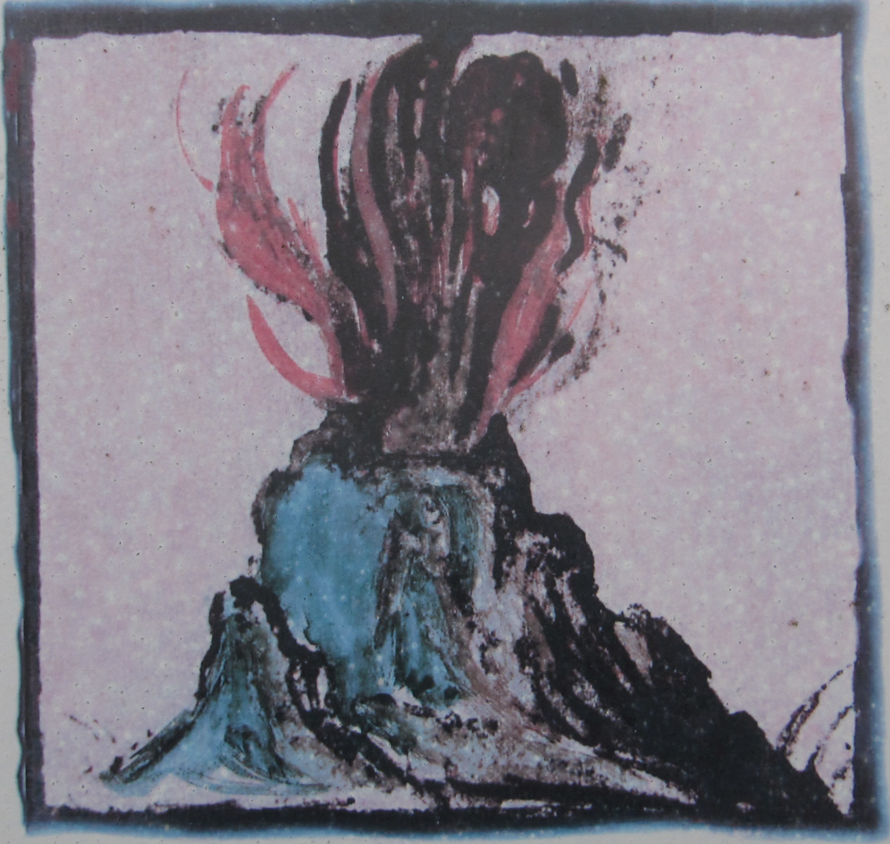 Järle city weapon 1642